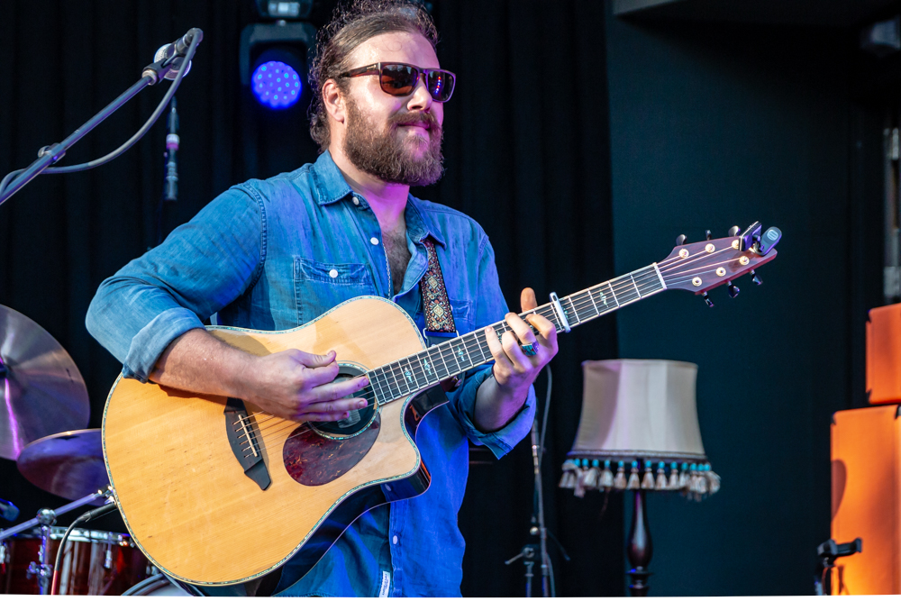 Travis Shallow performing at Greenfield Lake Amphitheater on August 16th, 2018